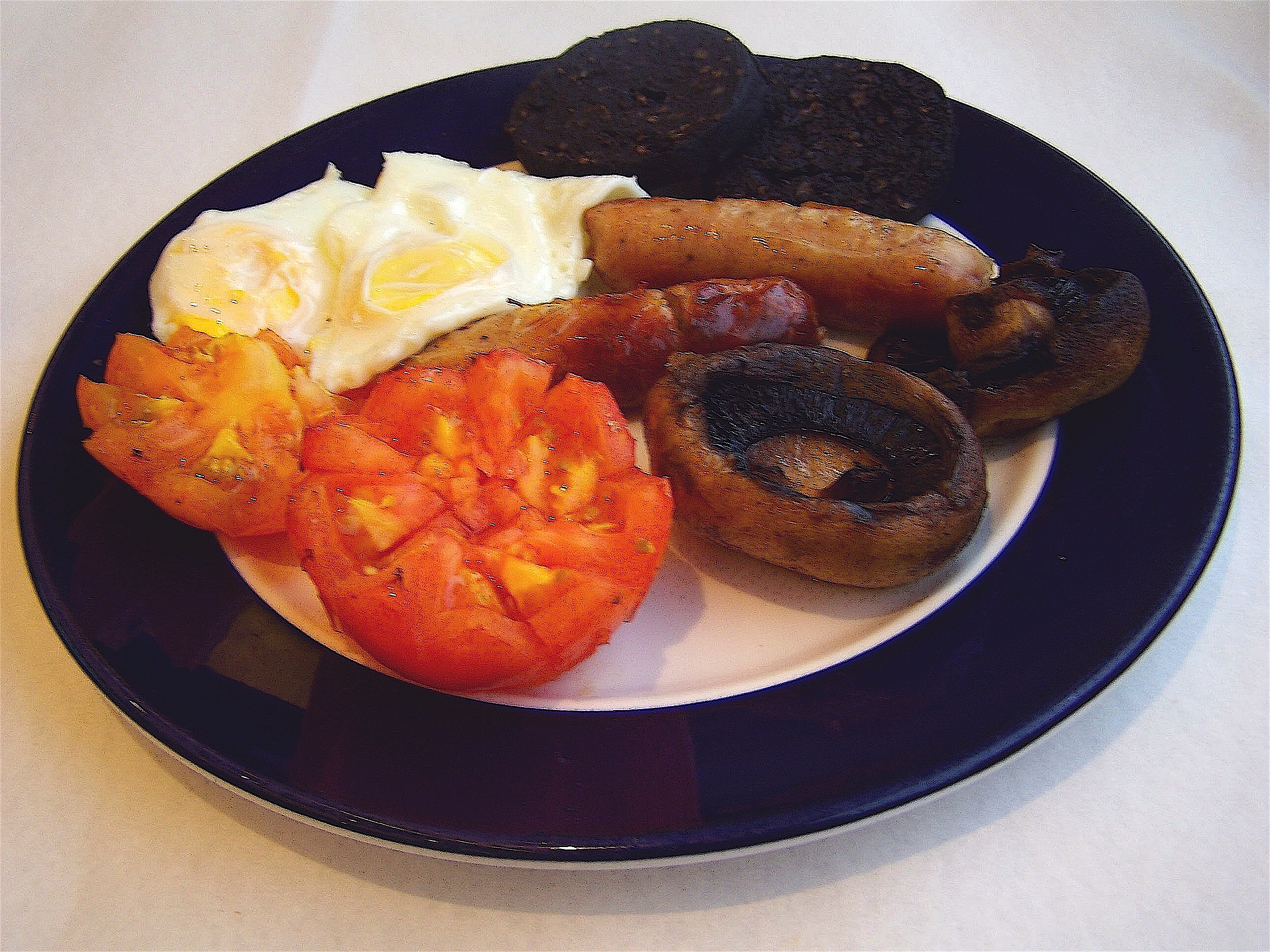 The famous GNER Great British Breakfast as served aboard the Restaurant Carriage.